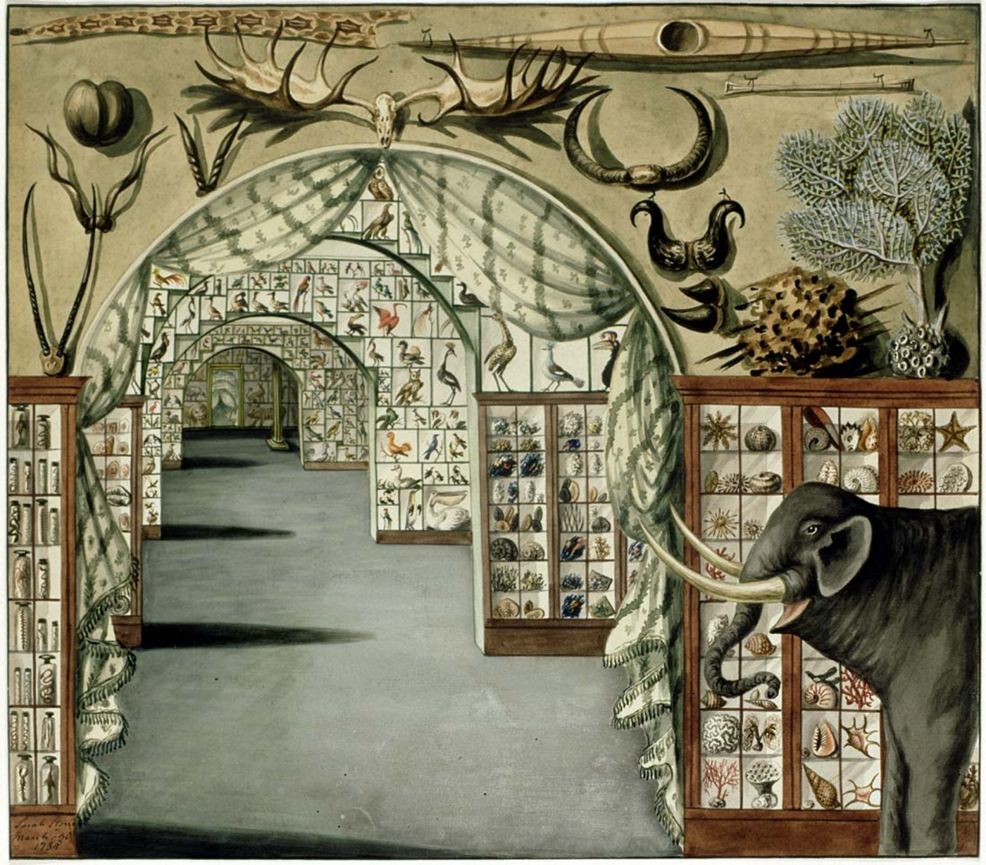 Watercolour of interior view of Sir Ashton Levers Museum London painted by Sarah Stone. This rare interior view is of one of England's most notable late-eighteenth century private natural history museums displaying items collected on Cook's and other voyages to Australia and the Pacific.